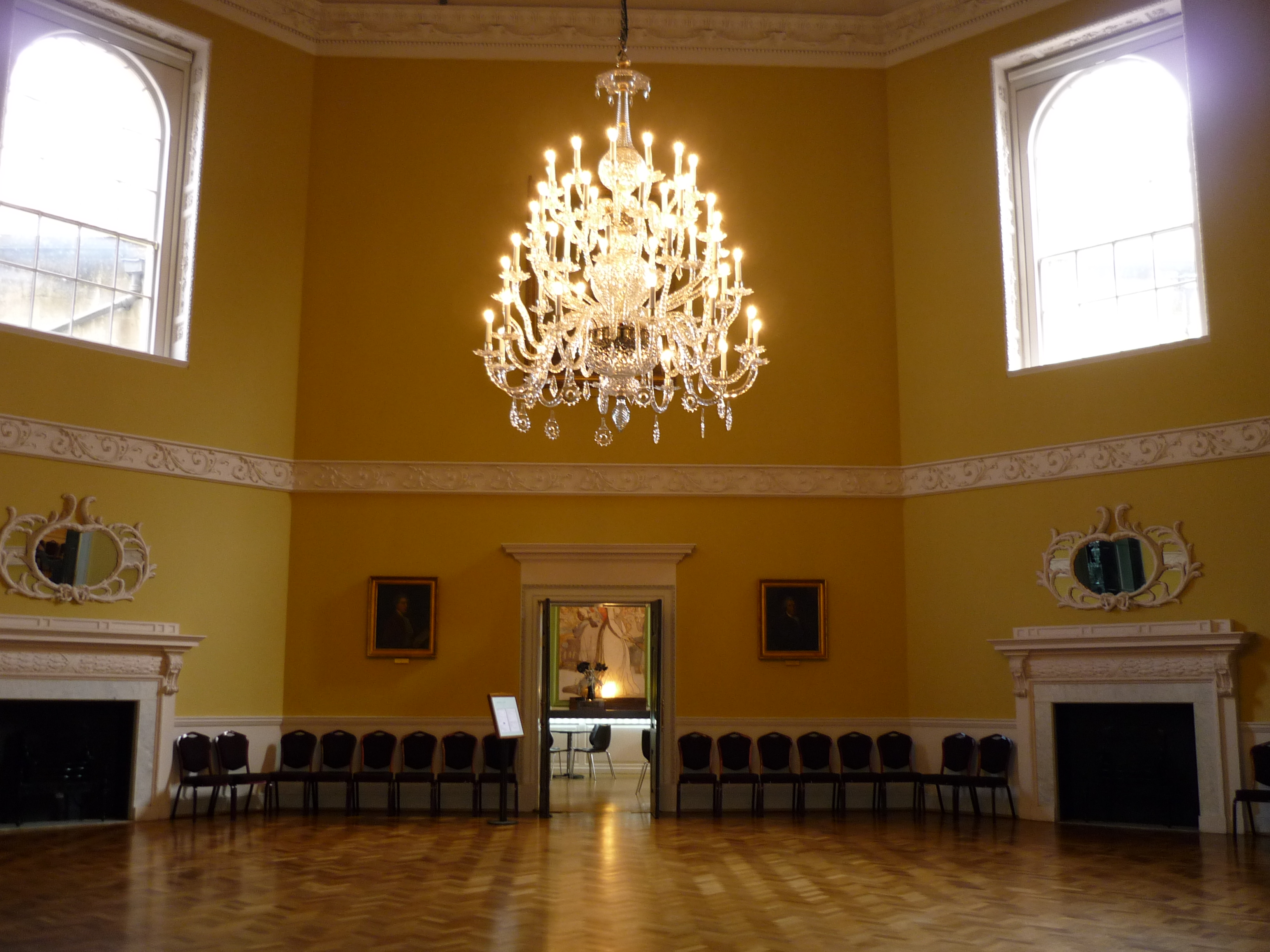 This is the Octagon Room at the Bath Assembly Rooms